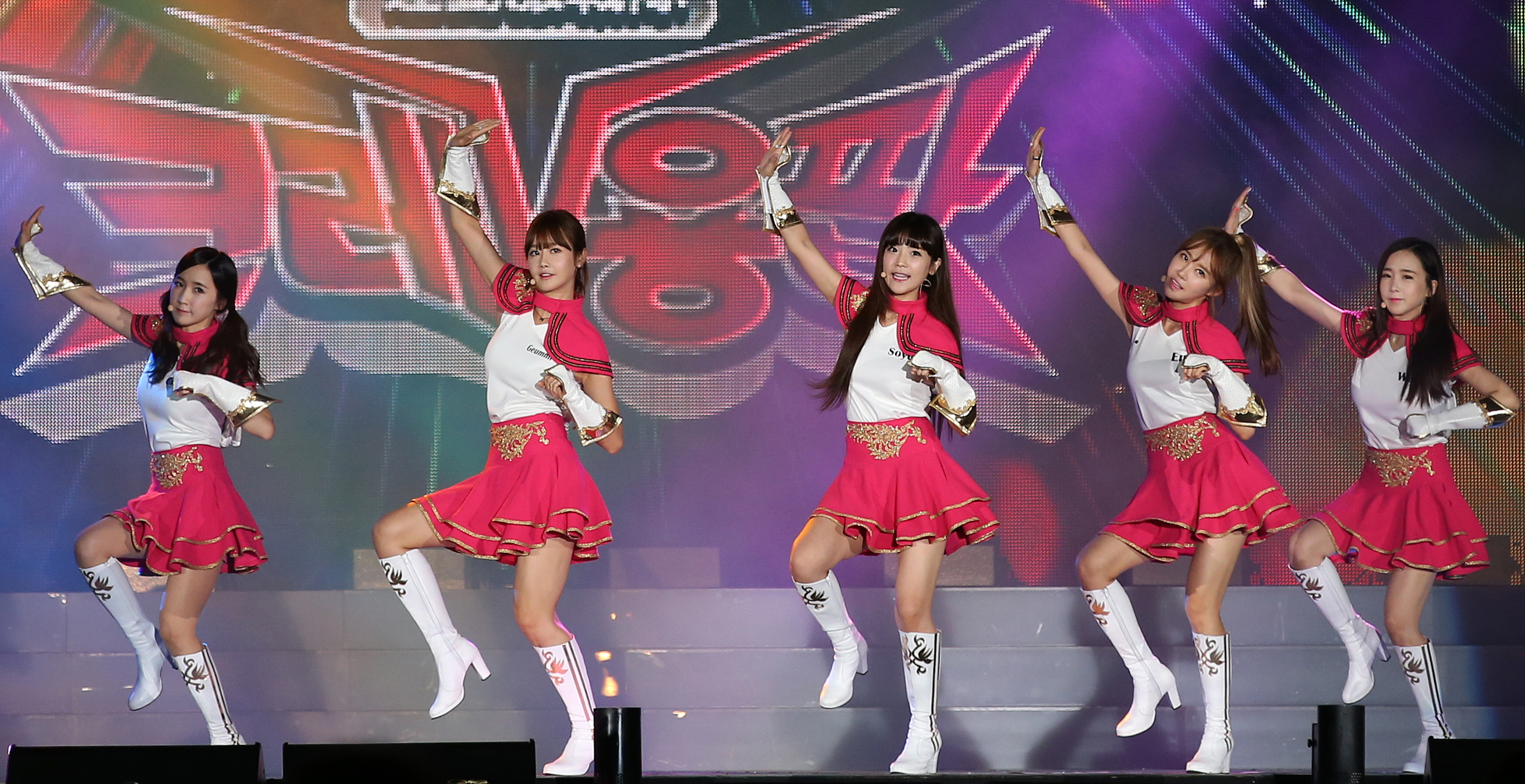 2015 Summer K-POP Festival August 4, 2015 Seoul Plaza Ministry of Culture, Sports and Tourism Korean Culture and Information Service ( Official Photographer : Jeon Han